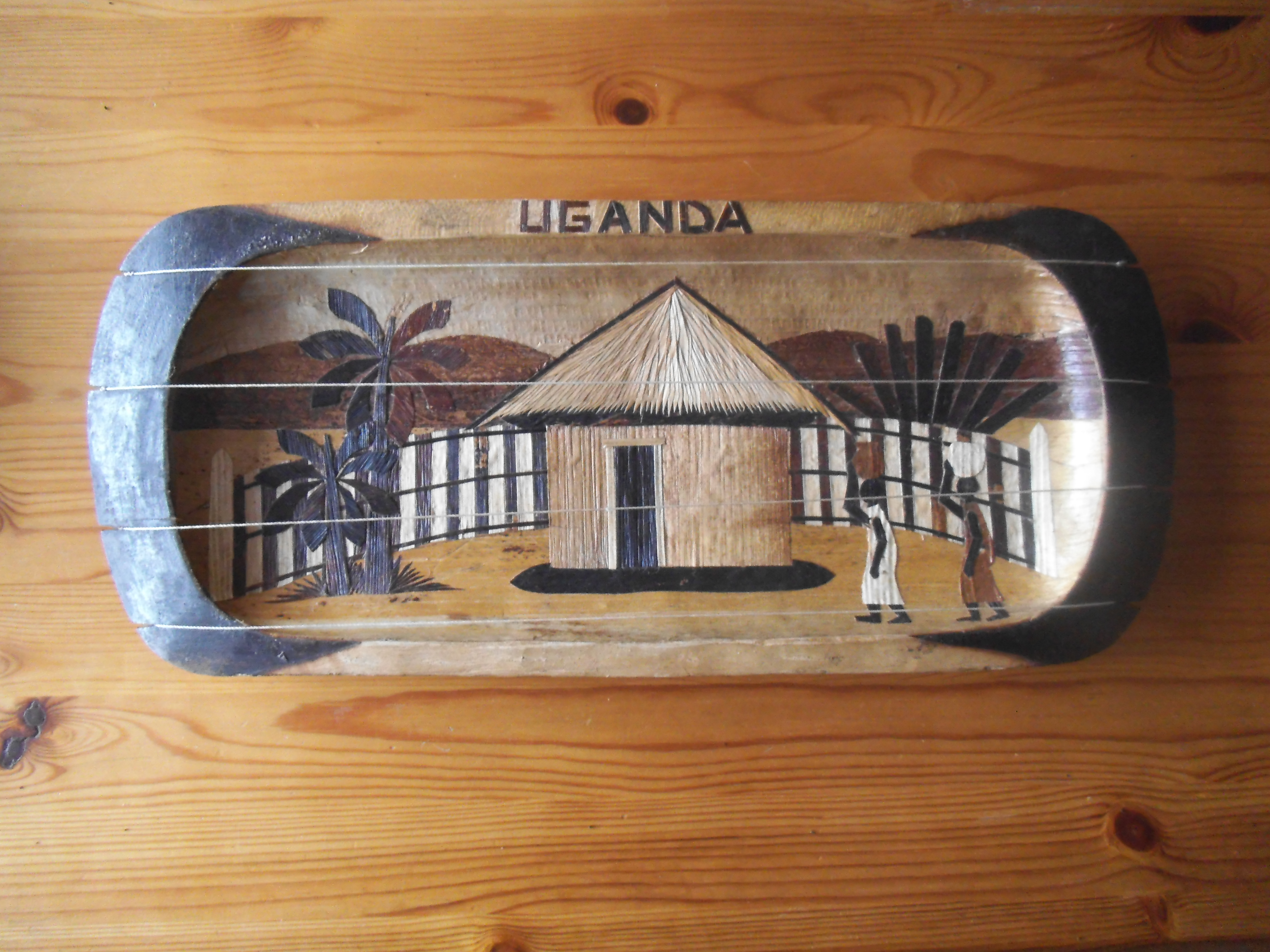 A four-stringed thumb-piano called an Enanga, played by the Bakiga. It is from Kabale in South-Western Uganda.